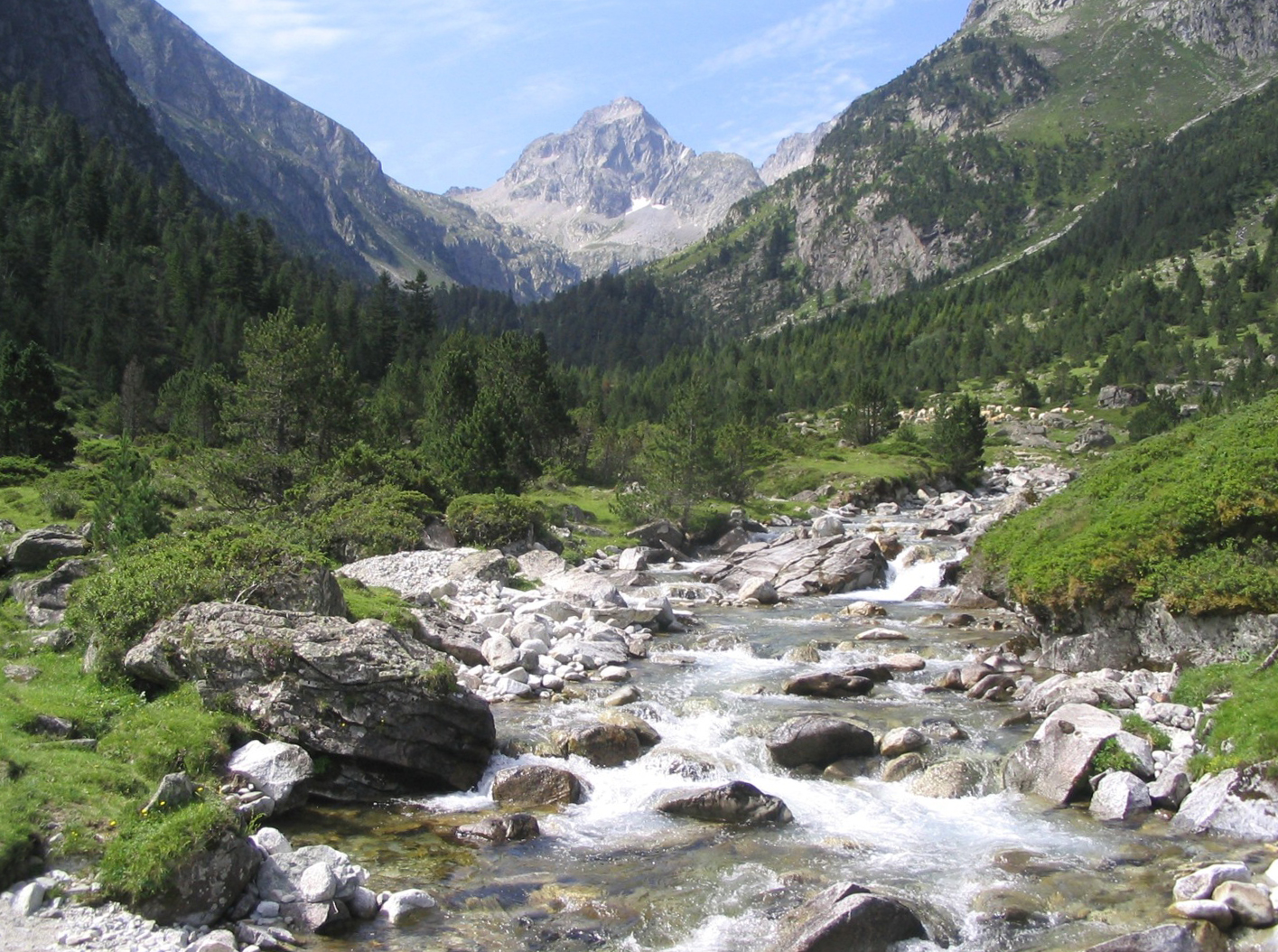 Vallée du Lutour — stream in and landscape of Pyrénées National Park, Hautes-Pyrénées department, southwest France. A forest of Pinus mugo subsp. uncinata (mountain pines) in backround.